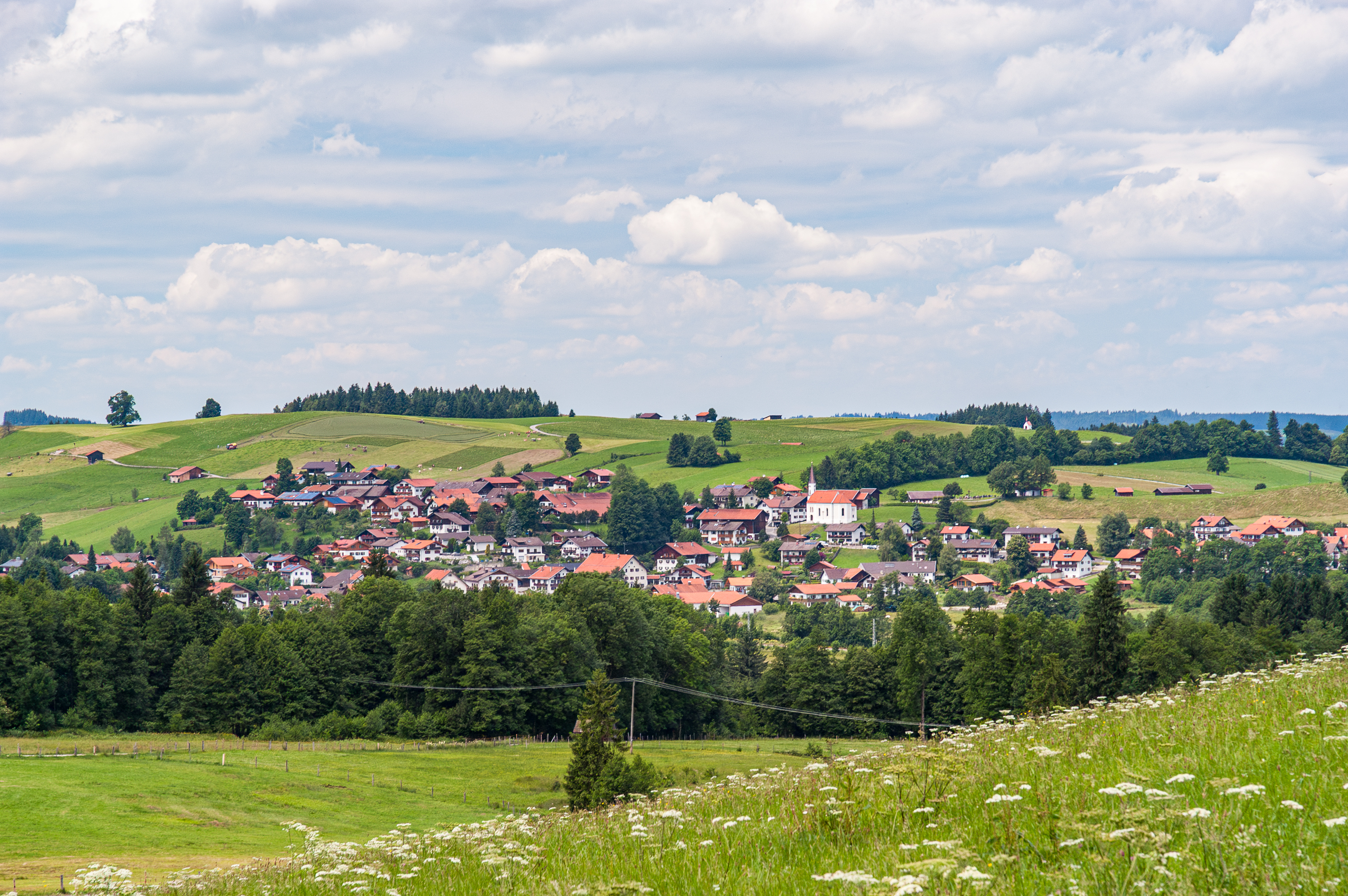 Exposure of Saulgrub in region Oberland, Bavaria, Germany. View from Sonnen/Kraggenau to NW direction.